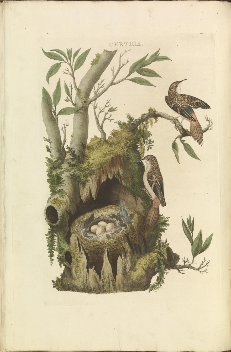 Plate 31 from the Nederlandsche vogelen by Nozeman and Sepp.